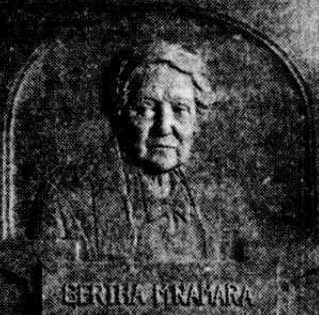 Bertha McNamara (1853-1931) Australian political activist and writer, known as "The Mother of the Labour Movement"